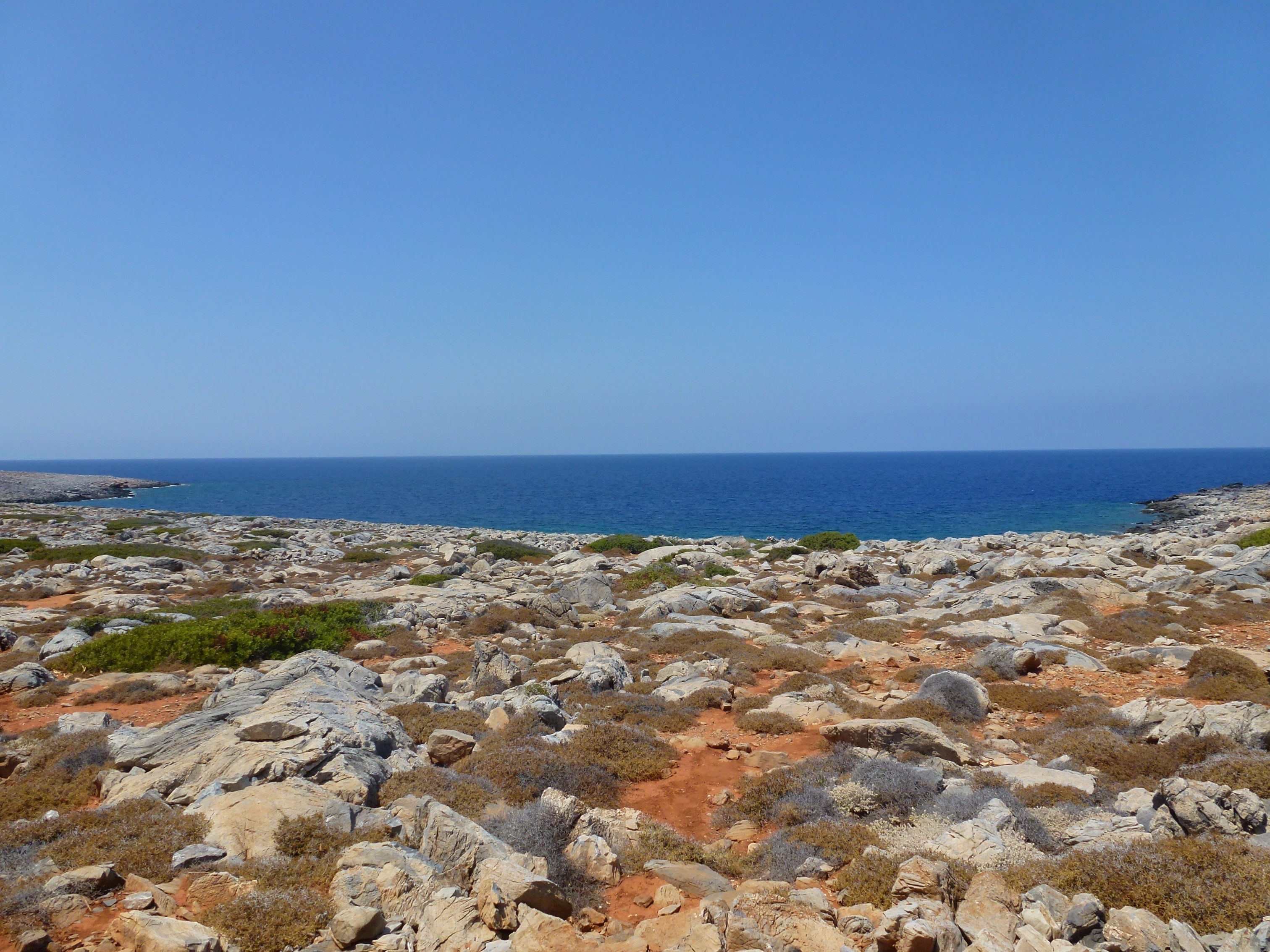 This is a photography of Natura 2000 protected area with ID GR4310003